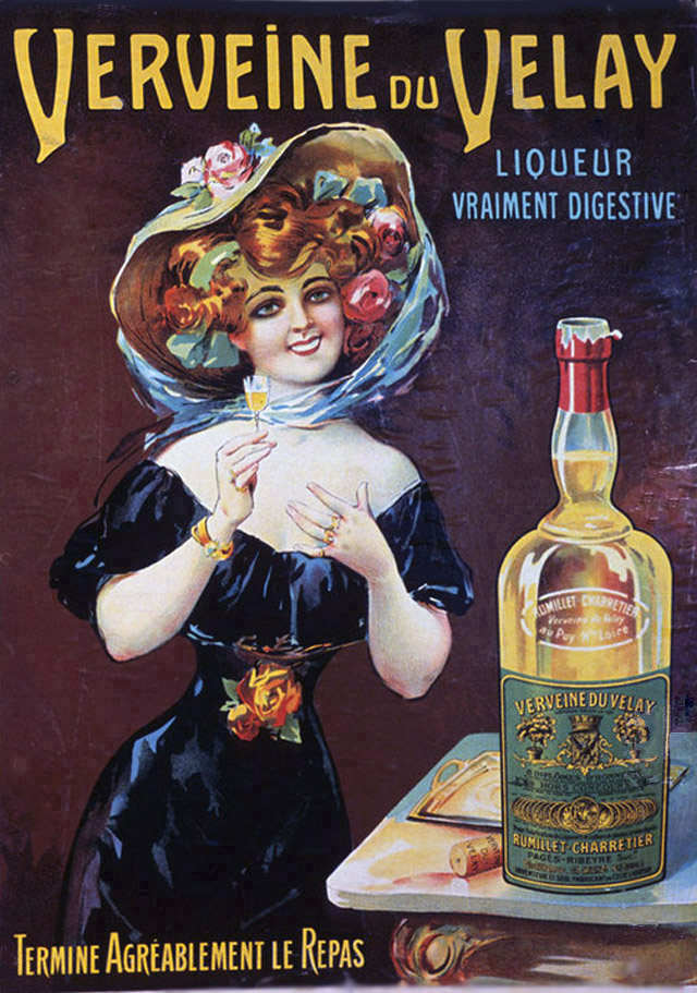 Poster Verveine du Velay